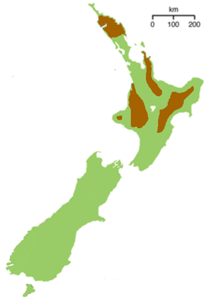 North Island Brown Kiwi Apteryx mantelli elterjedési területe